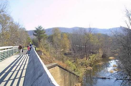 A view from the Chief Ladiga Trail in north Cleburne County, Alabama, USA